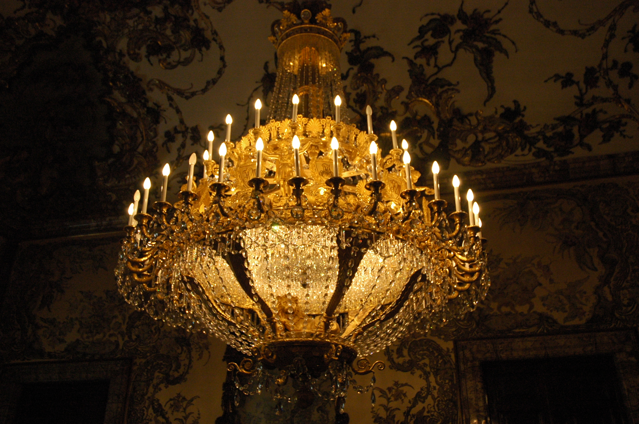 Chandelier at the Royal Palace of Madrid (Spain).